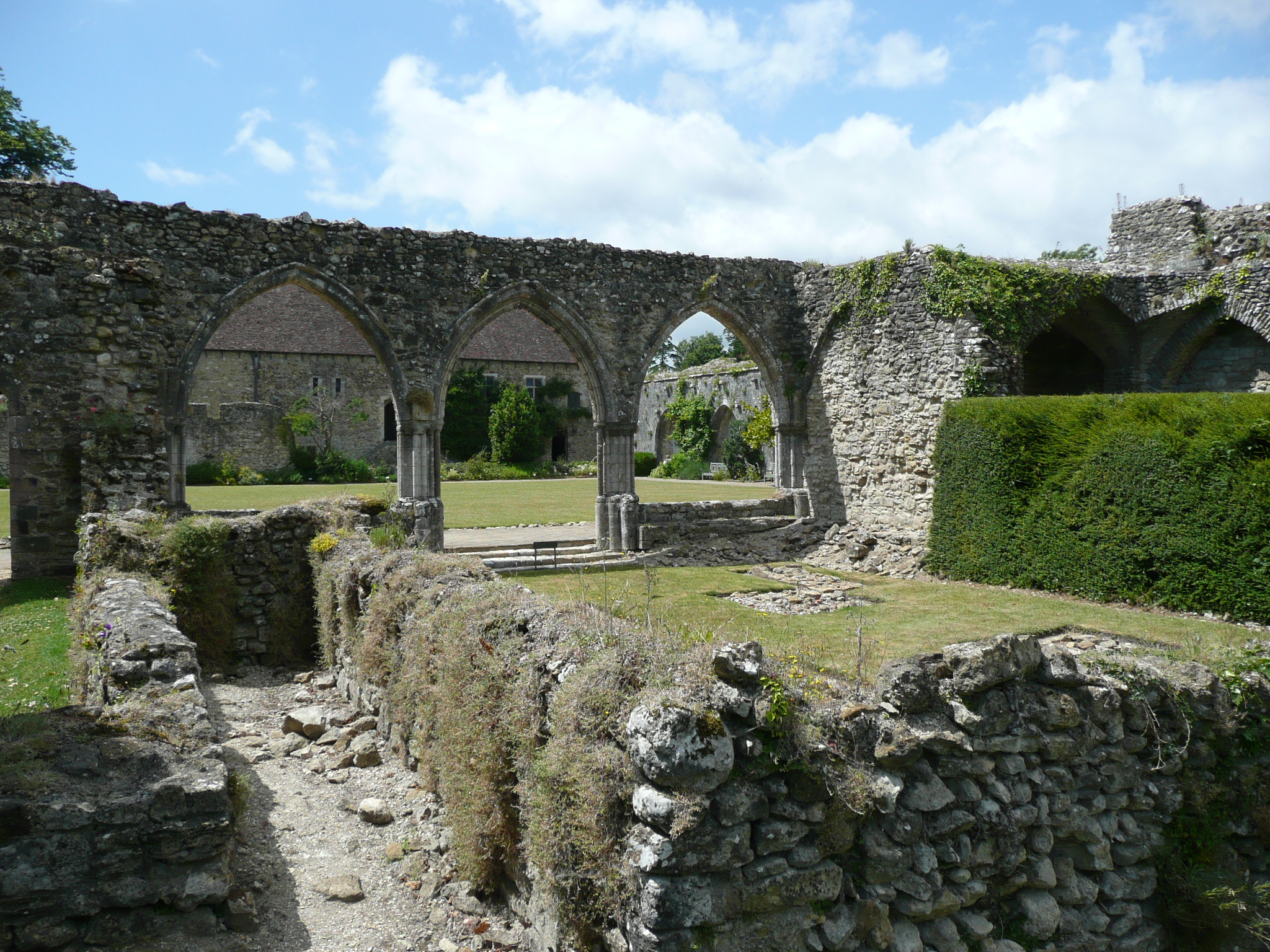 Beaulieu Abbey, Hampshire, England.